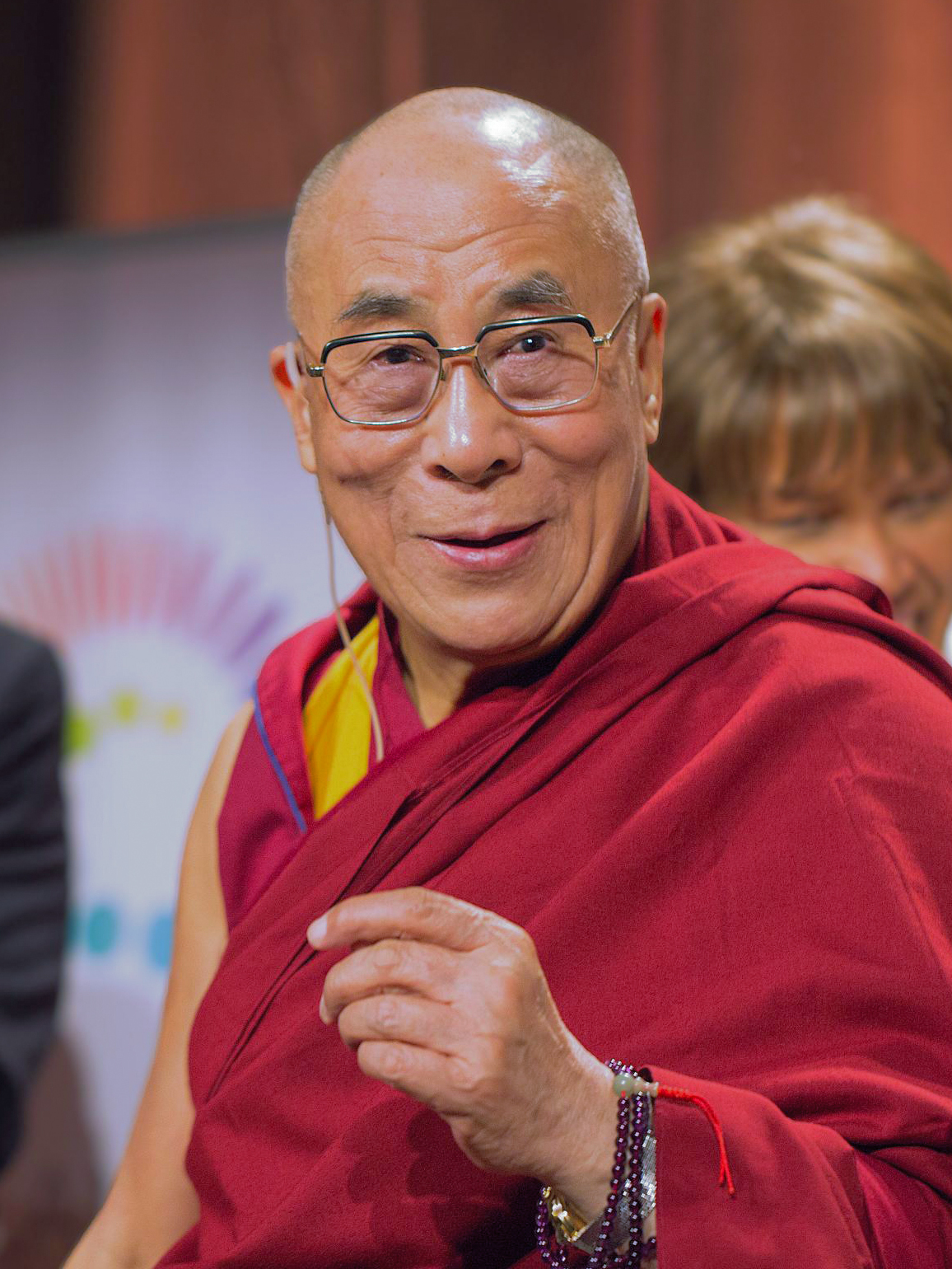 Tenzin Gyatso - 14th Dalai Lama